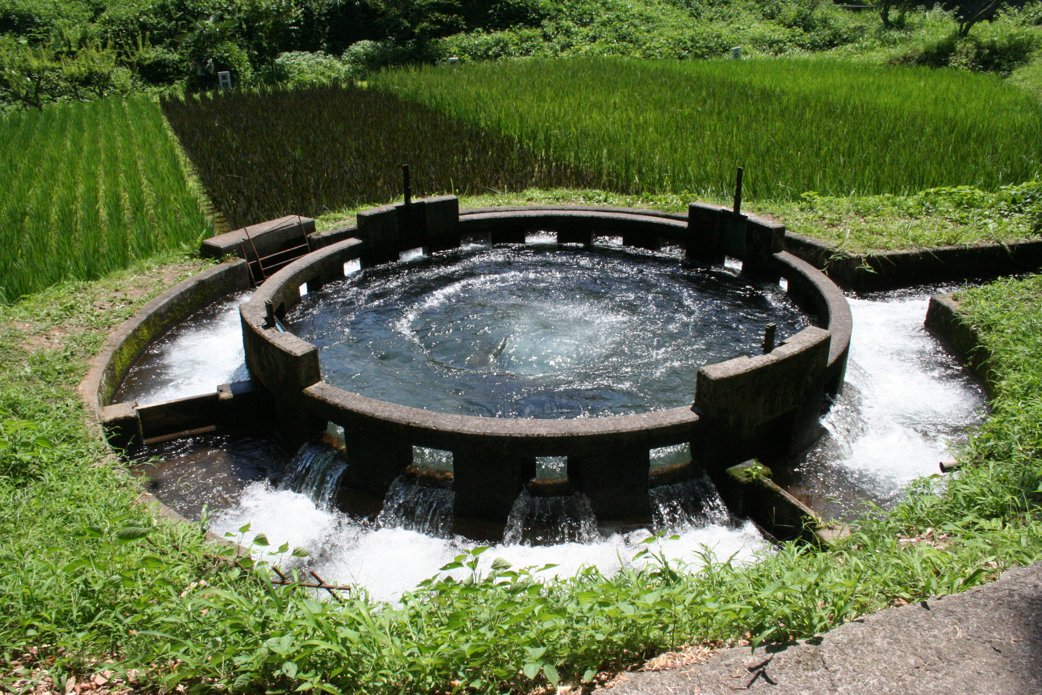 円形分水 (enkei-bunsui (jp)) (circular water sharing). Taketa, Oita Prefecture, Japan. It divide agricultural water at a rate proportional to proportion of circular arc.